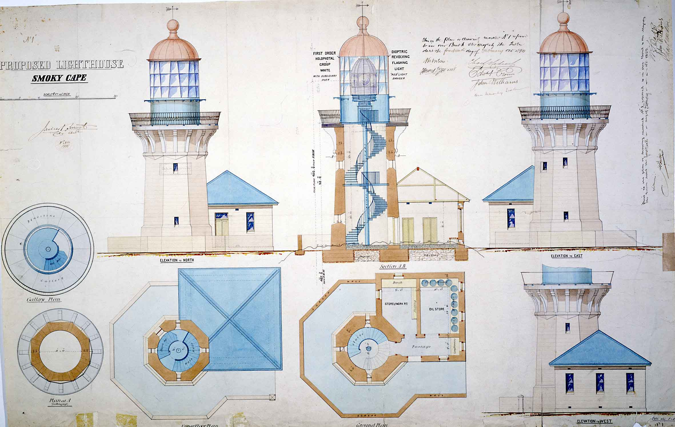 Smoky Cape Light, lighthouse plans, by James Barnet - NSW Colonial Architect, 1888